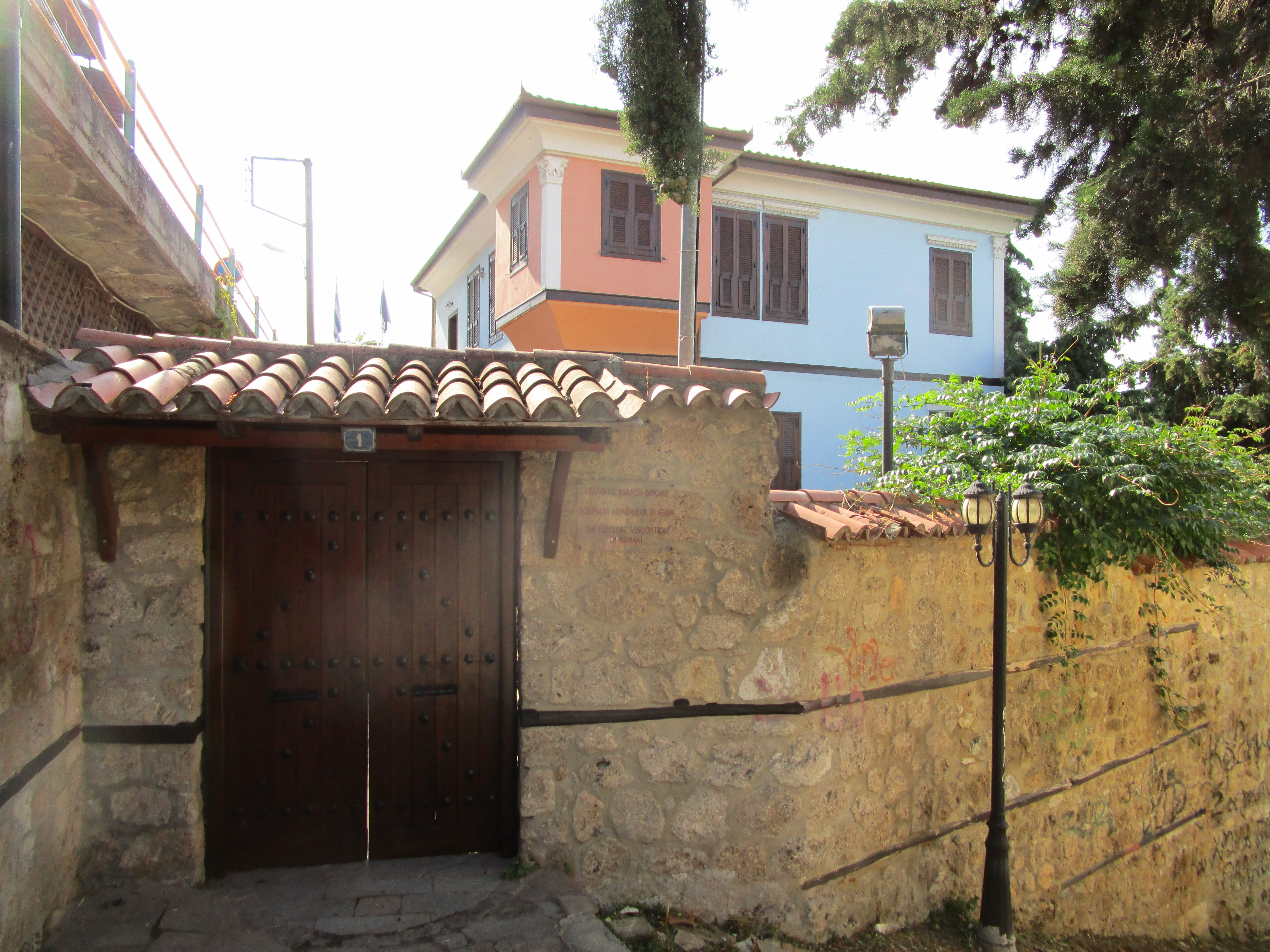 Vlah ethnographic museum, Ber